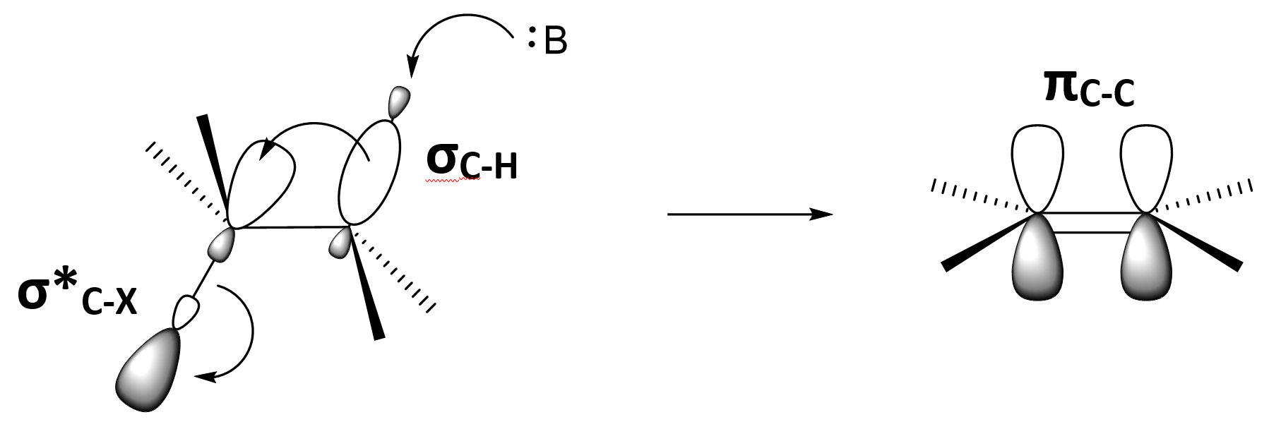 Molecular orbitals showing preference for an anti-periplanar geometry in a bimolecular elimination mechanism.